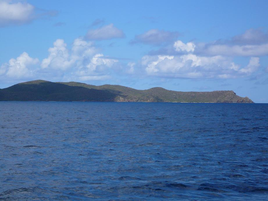 Photograph of Great Camanoe Island, British Virgin Islands